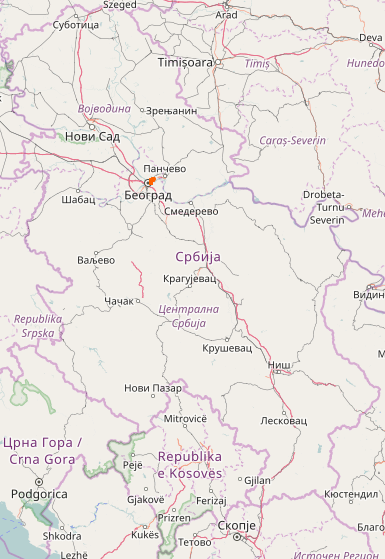 OpenStreetMap of State Road 47 in Serbia.